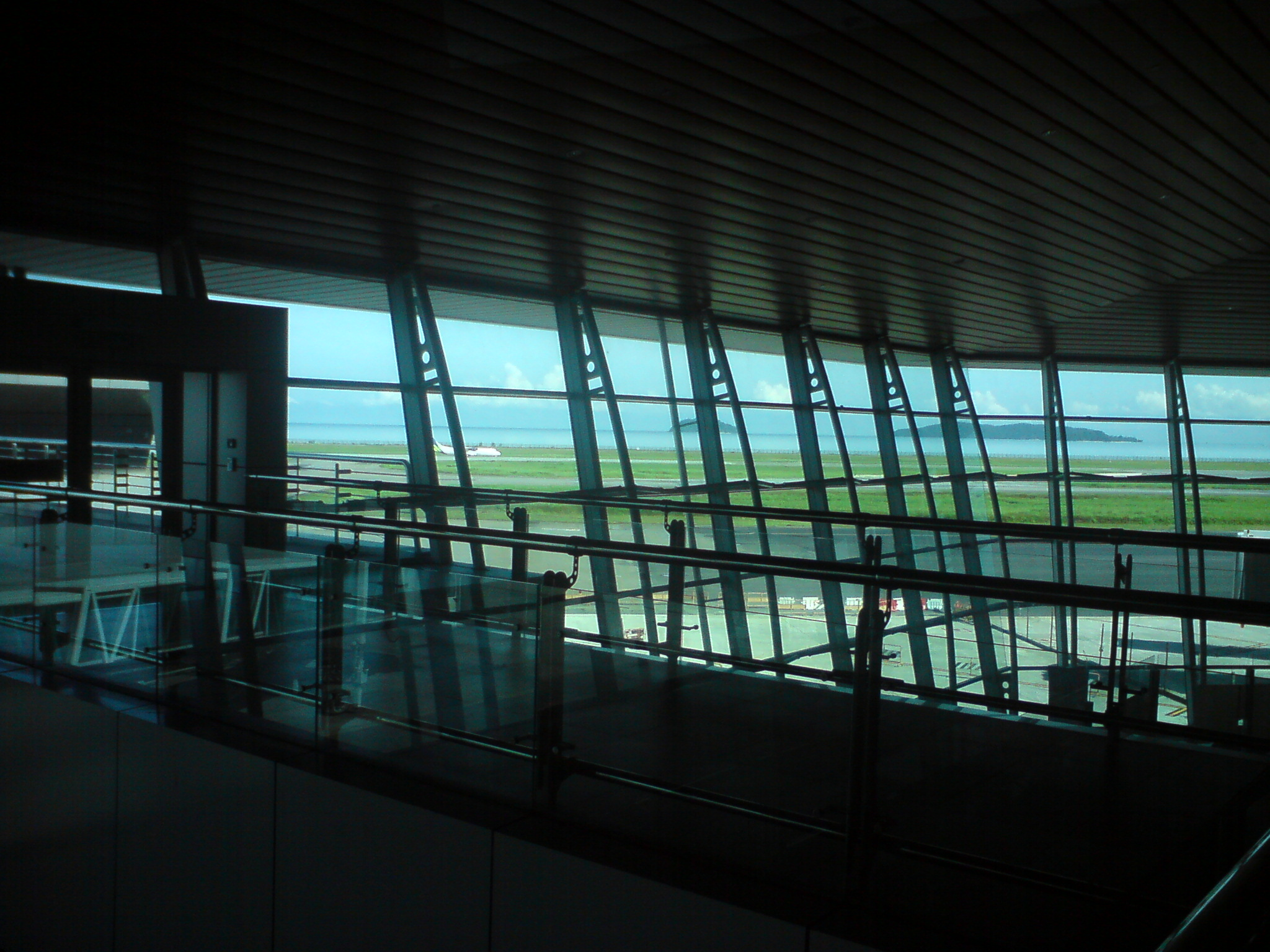 Gate A5, Terminal 1